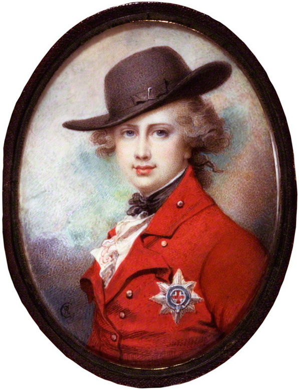 Portrait of George IV of the United Kingdom (1762-1830)